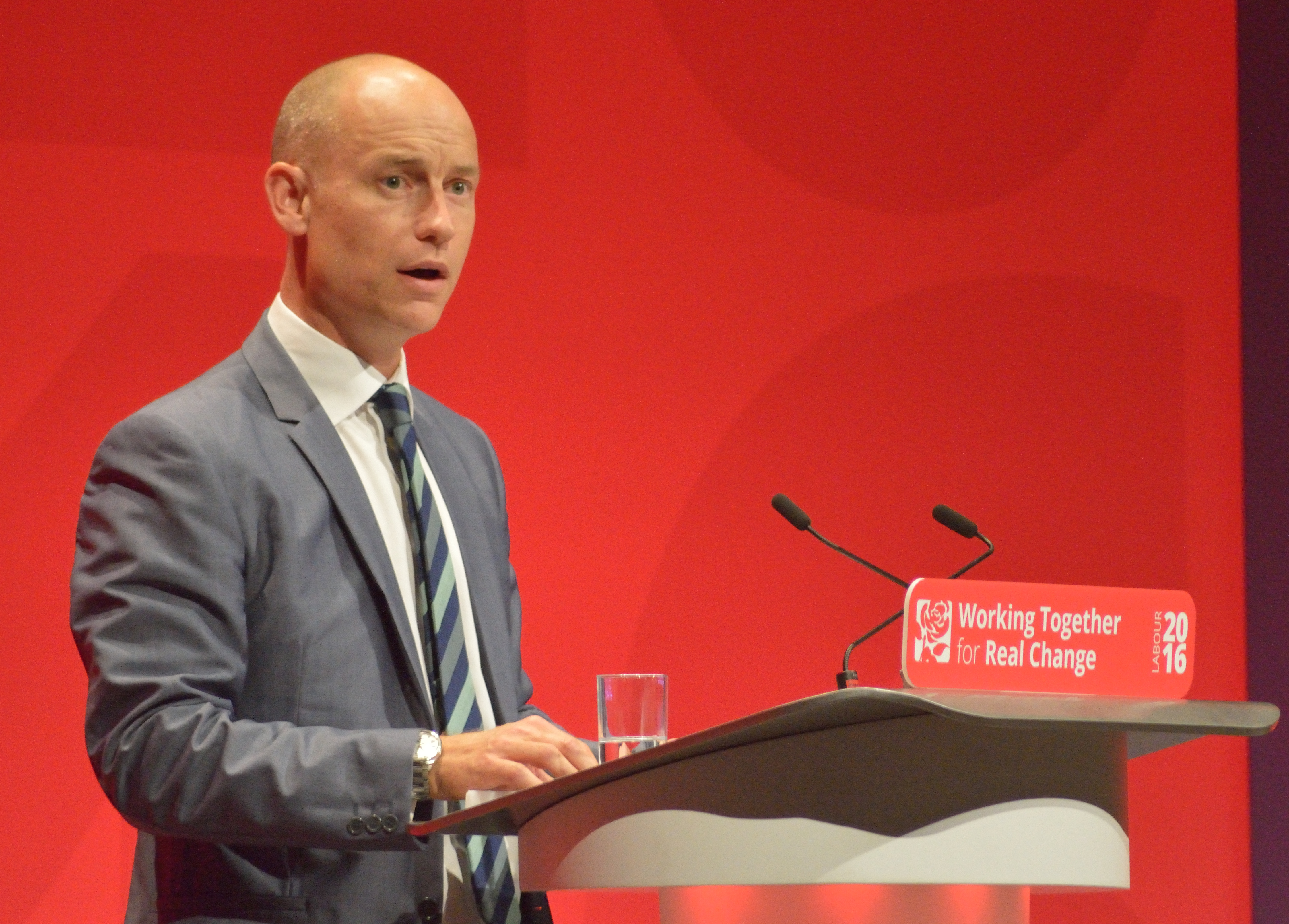 Stephen Kinnock speaking on day two of the 2016 Labour Party Conference in Liverpool.